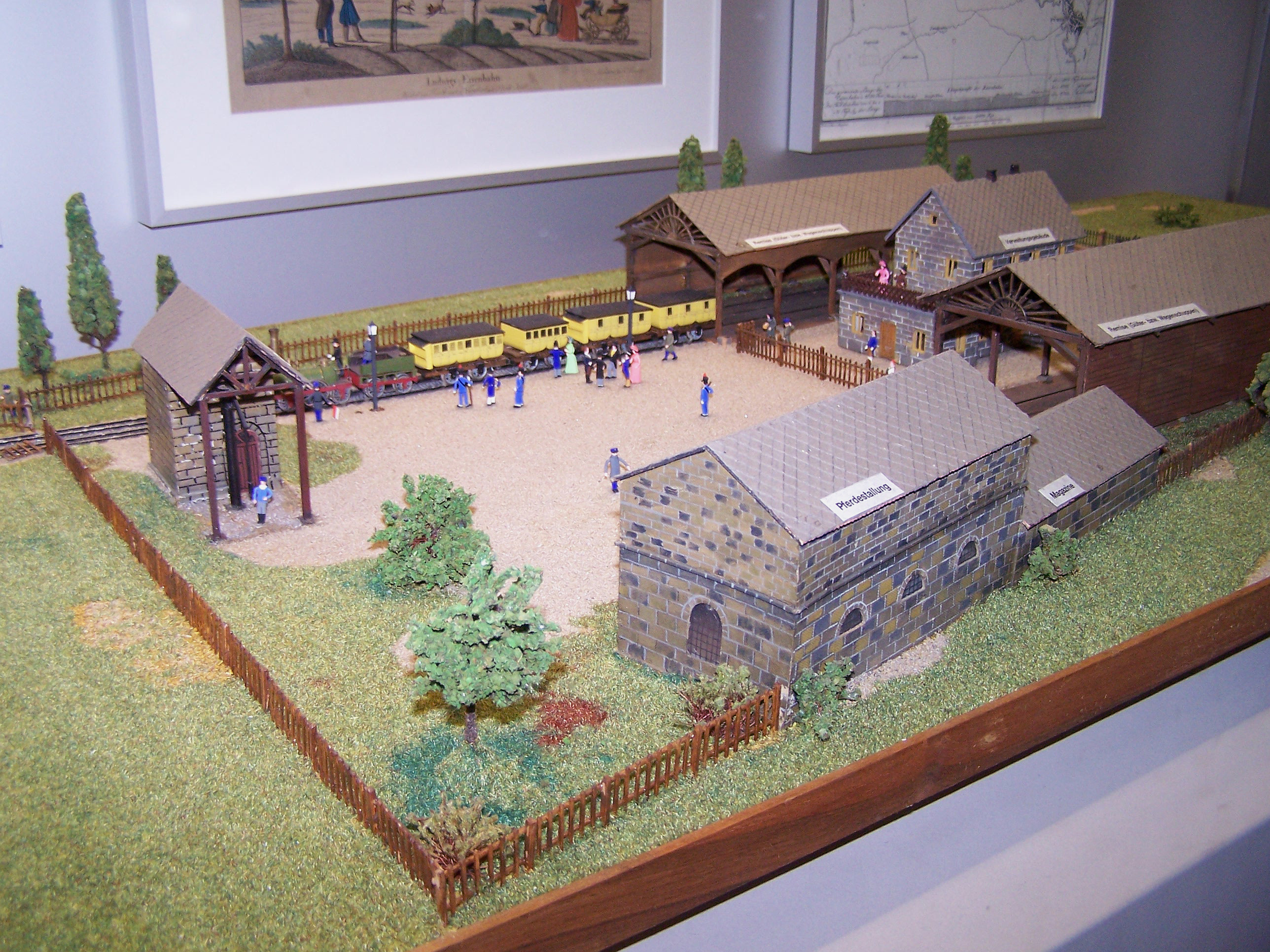 Model of the first railway station of the Bavarian Ludwig Railway in Nuremberg, built in 1835, in the Nuremberg Transport Museum